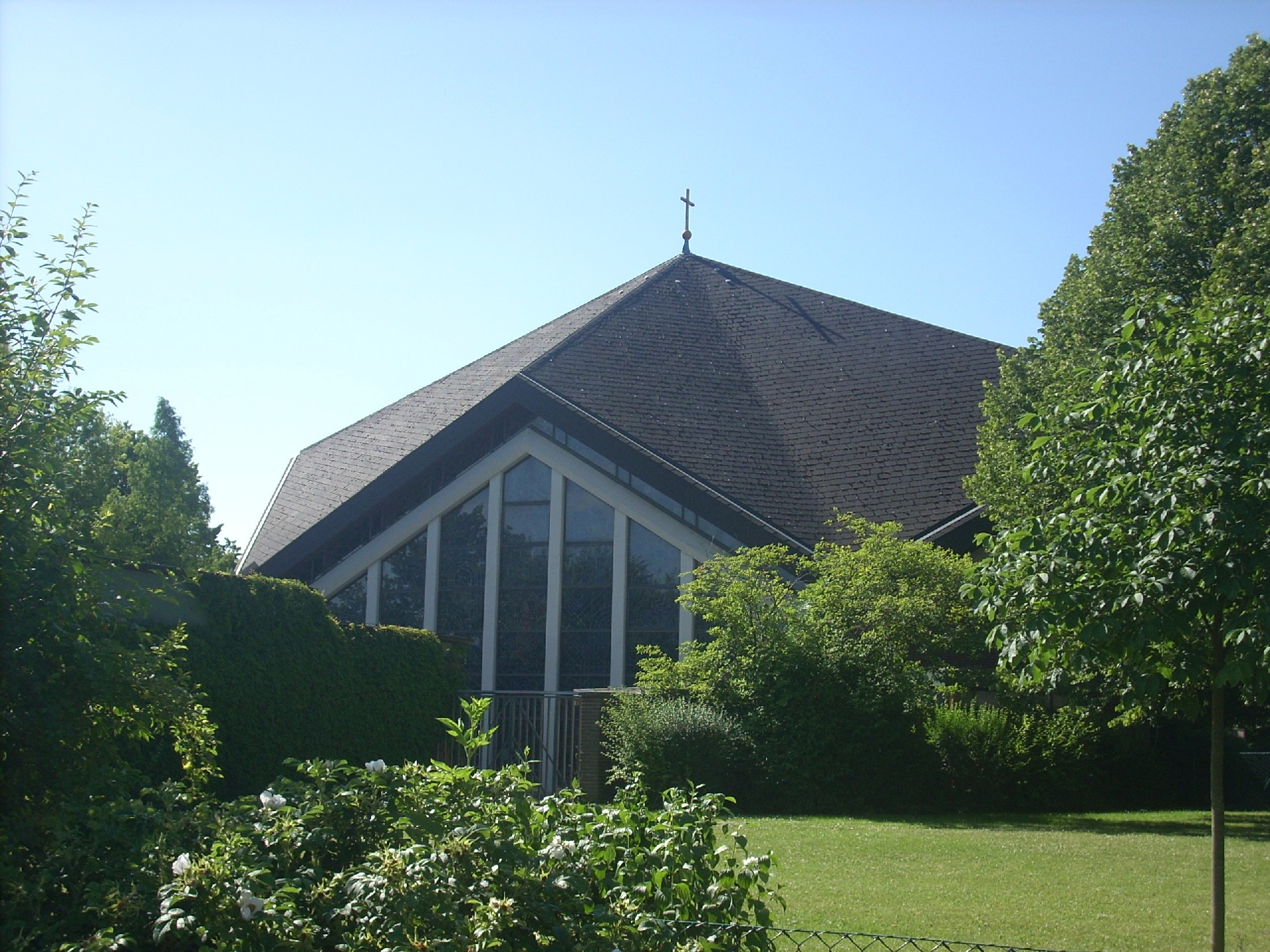 St. Altfried catholic church, Hildesheim-Ochtersum, view from north